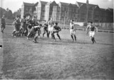 Rugby Union at Sydney University 1934